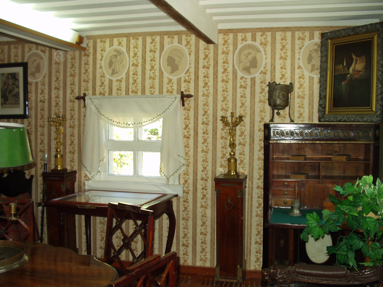 Kotlyarevsky house